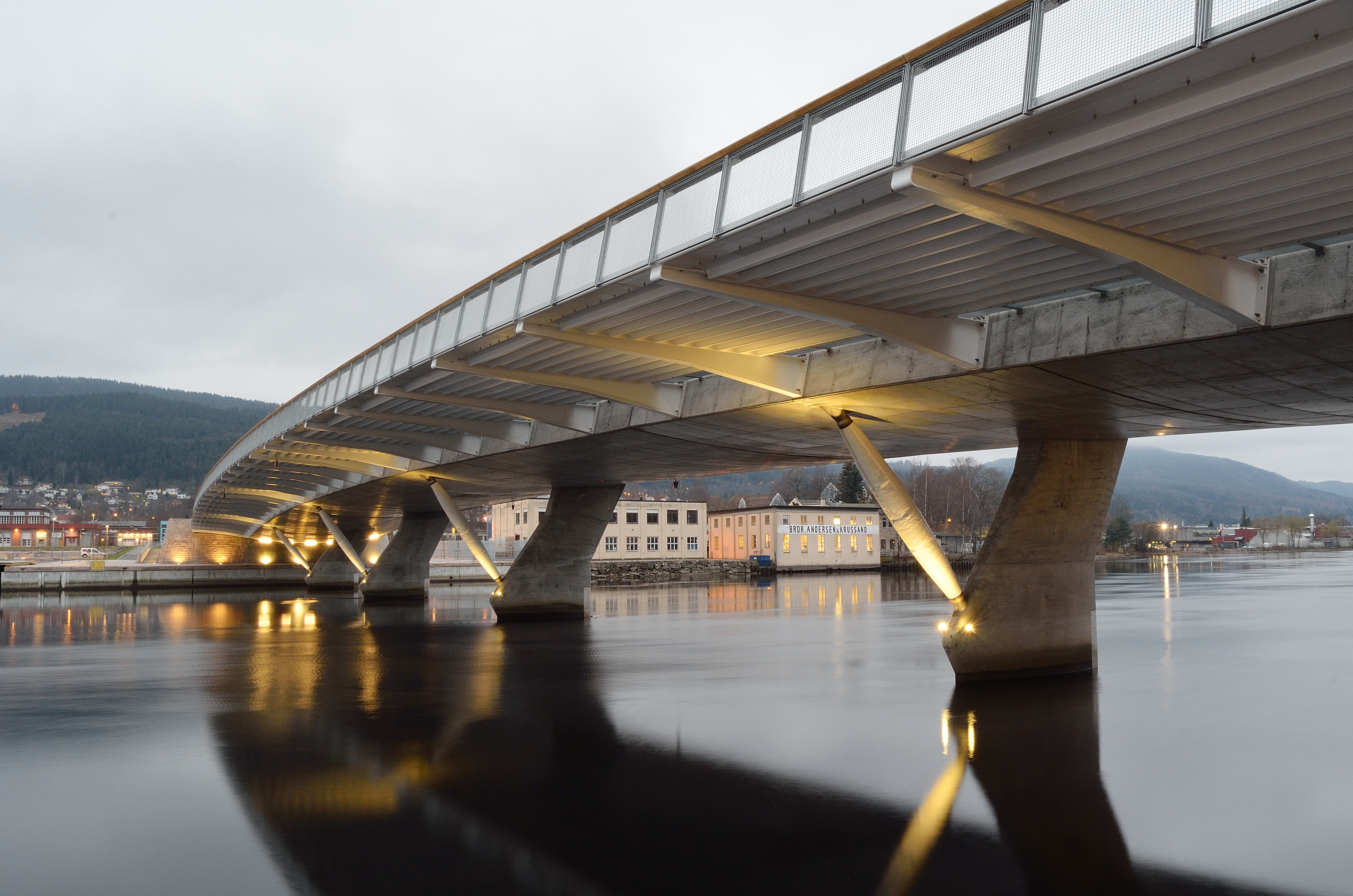 Øvre sund bridge